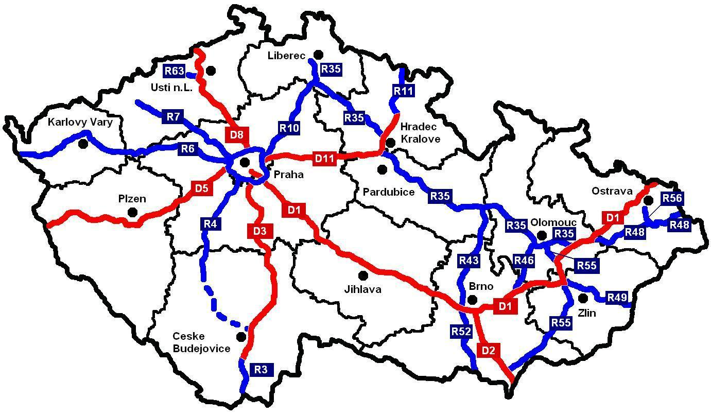 Czech Republic - planned Highway Network of the Czech Republic